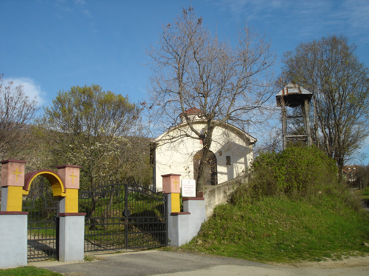 The church of Holy Mother of God in Ljubanci, Macedonia